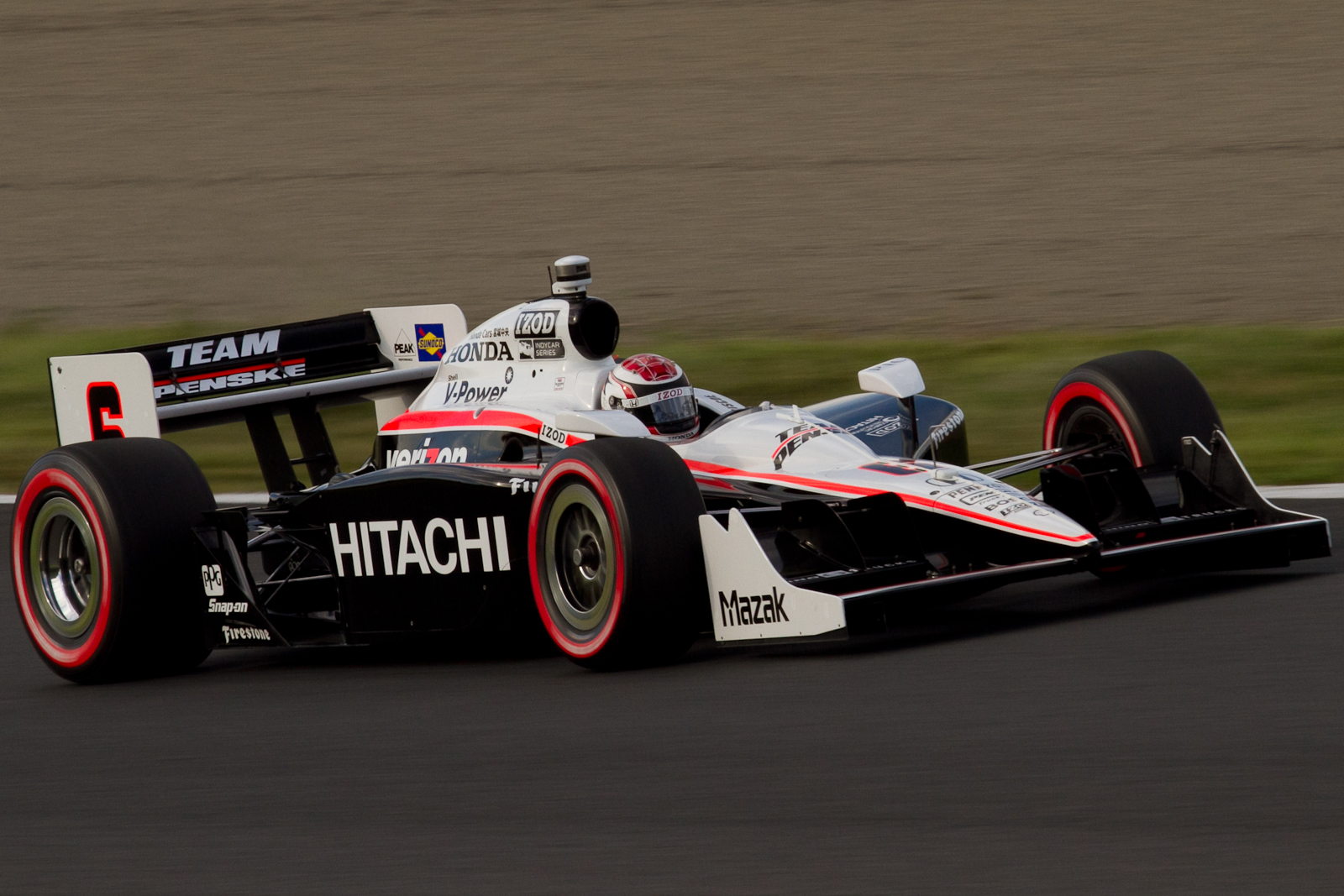 IndyCar Series 2011 Rd.15 Indy Japan 300: Ryan Briscoe (Team Penske)